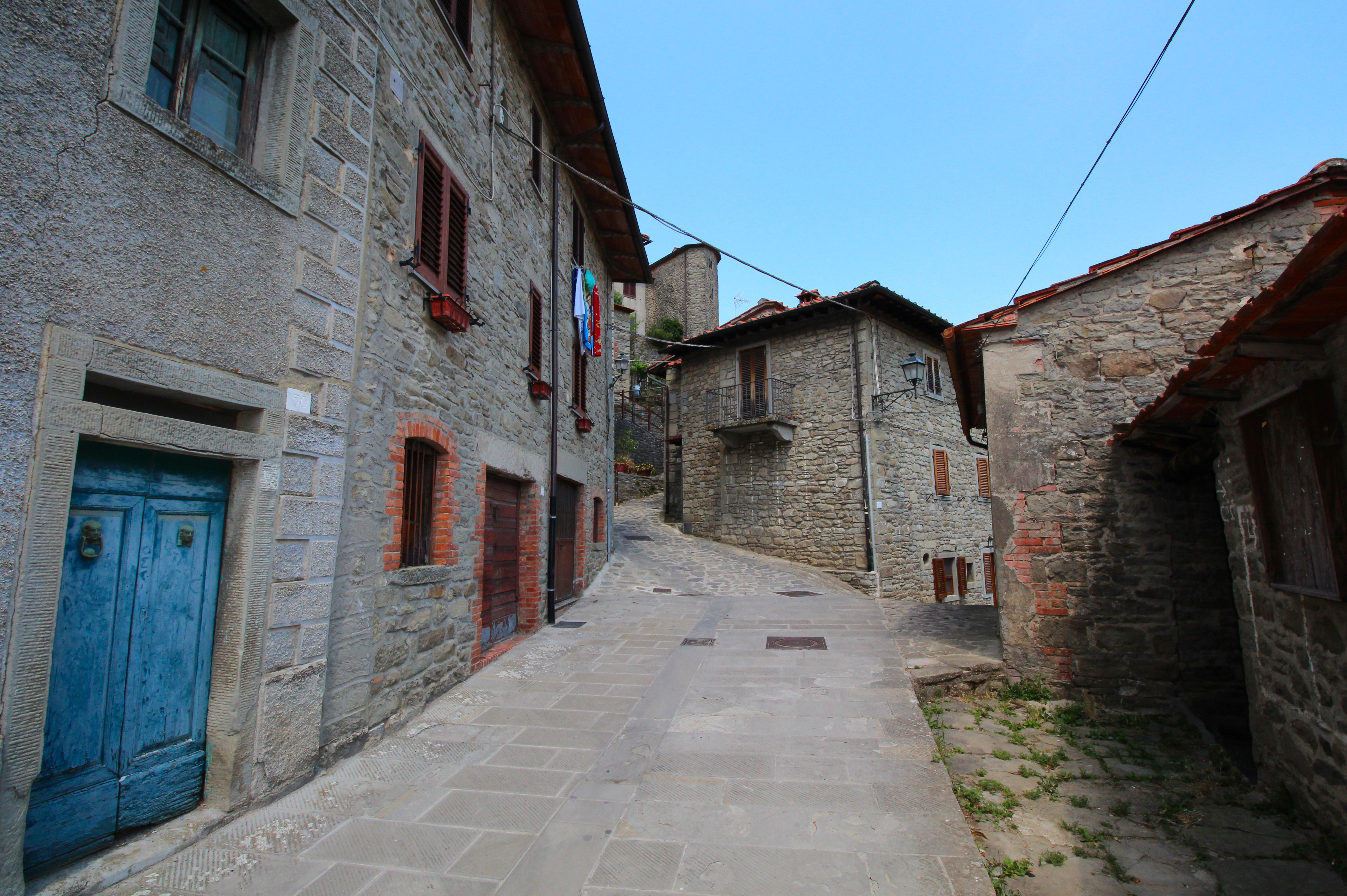 Carda, hamlet of Castel Focognano, Casentino, Province of Arezzo, Tuscany, Italy